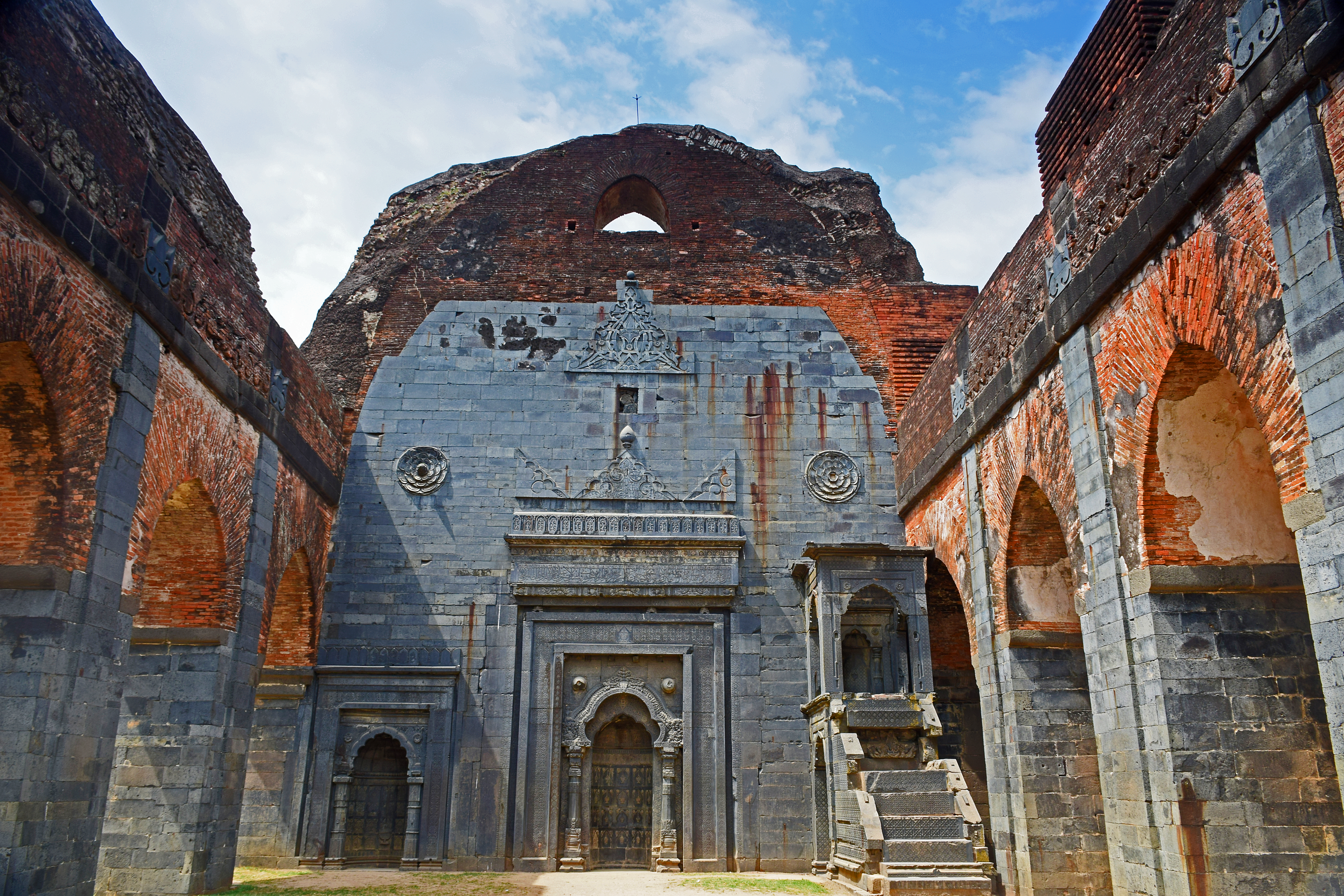 Main Mihrab and Mimber at Adina Mosque with huge stone wall